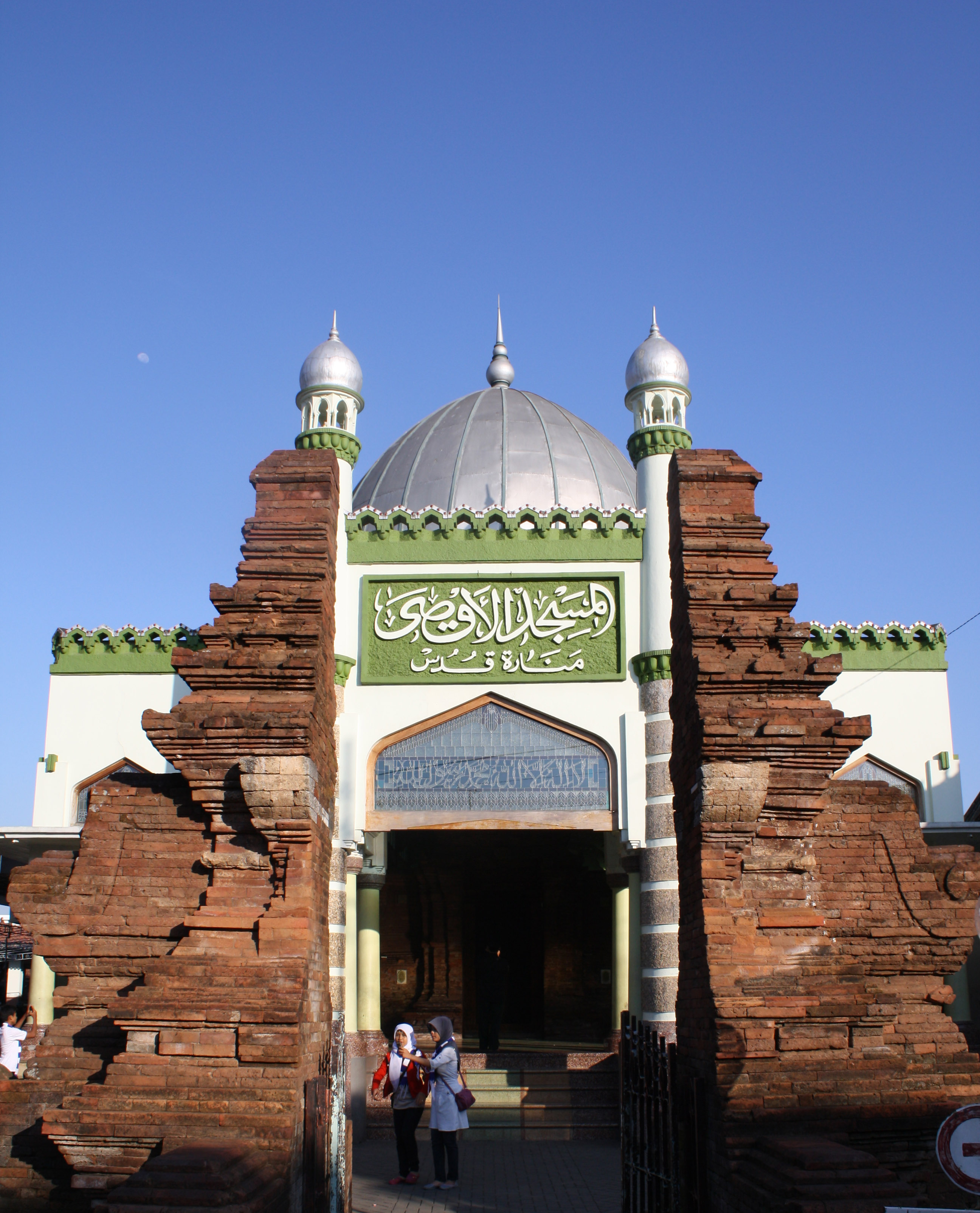 Masjid menara kudus Jawa Tengah Indonesia